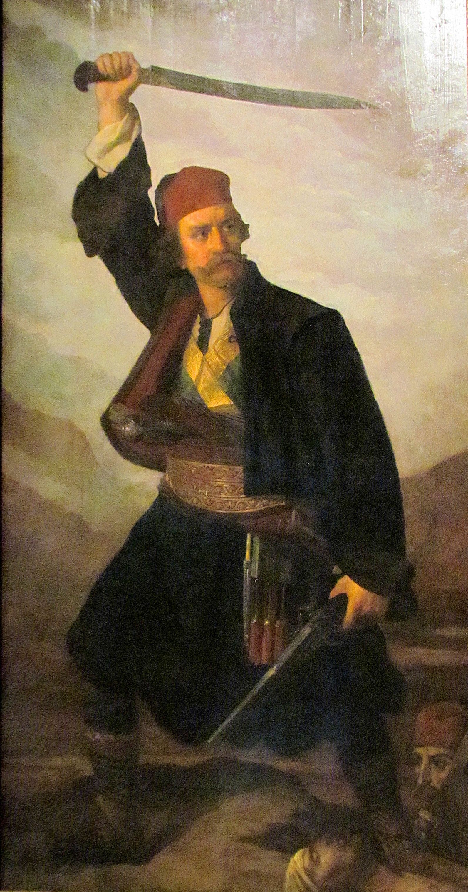 Steva Todorović, Vasa Čarapić c. 1860, National Museum of Serbia